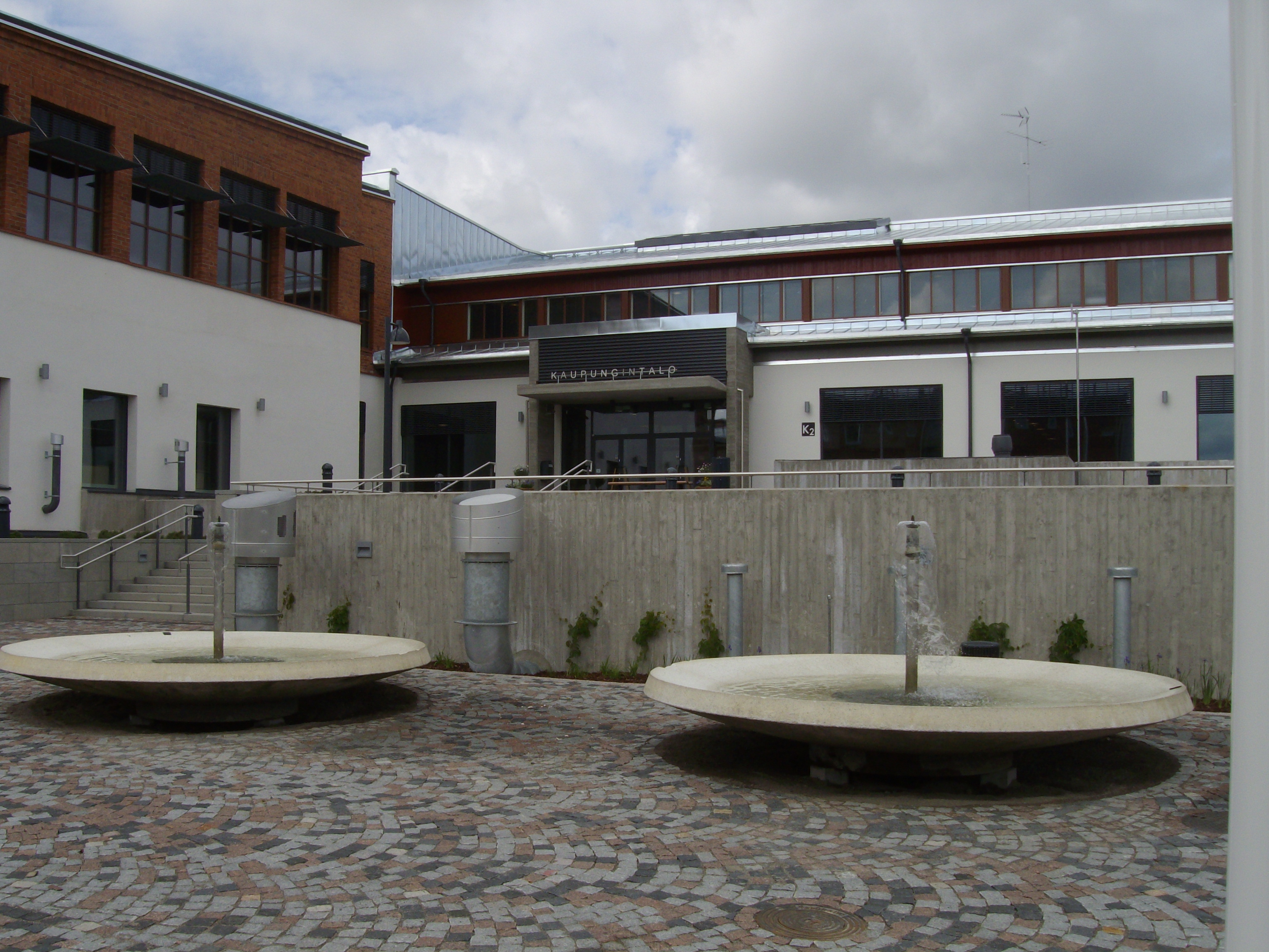 Entrance of the Ciity Hall in Hyvinkää. The City Hall is situated in an old wool factory.